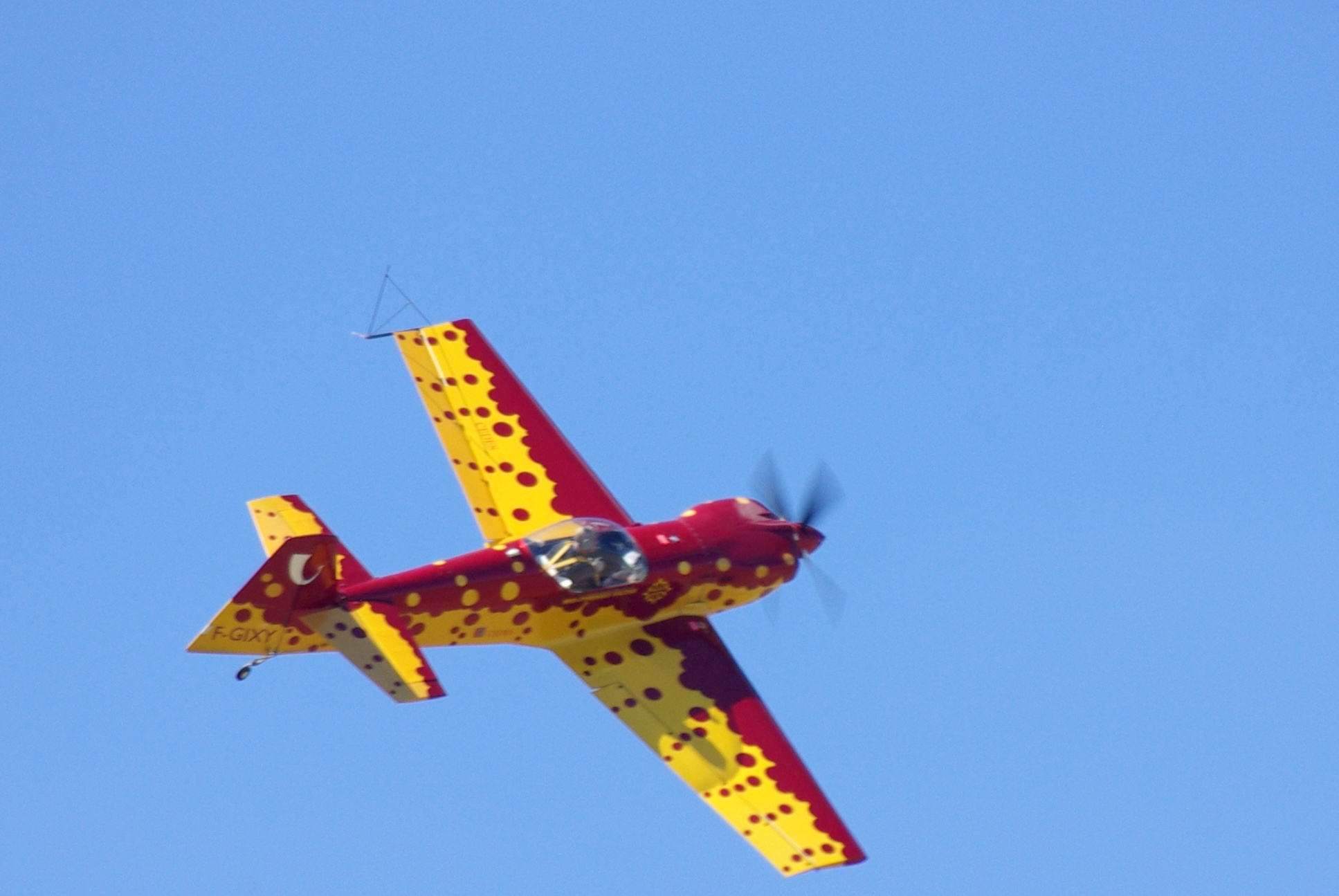 A CAP 232of Midi-Pyrénées Voltige on display at the AirExpo airshow on Muret-Lherm airfield on may 28th 2011.